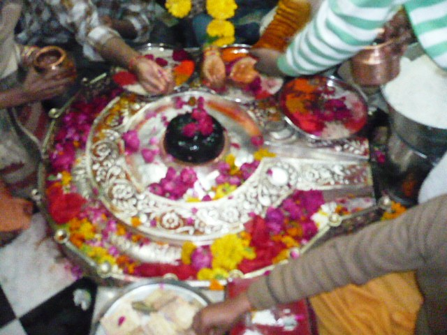 The Mahadeo Pindi in the Mangalnath Temple Ujjain,Madhya Pradesh, India.